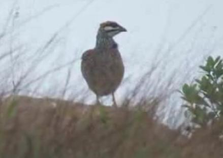 Chinese Francolin On Lantau Island